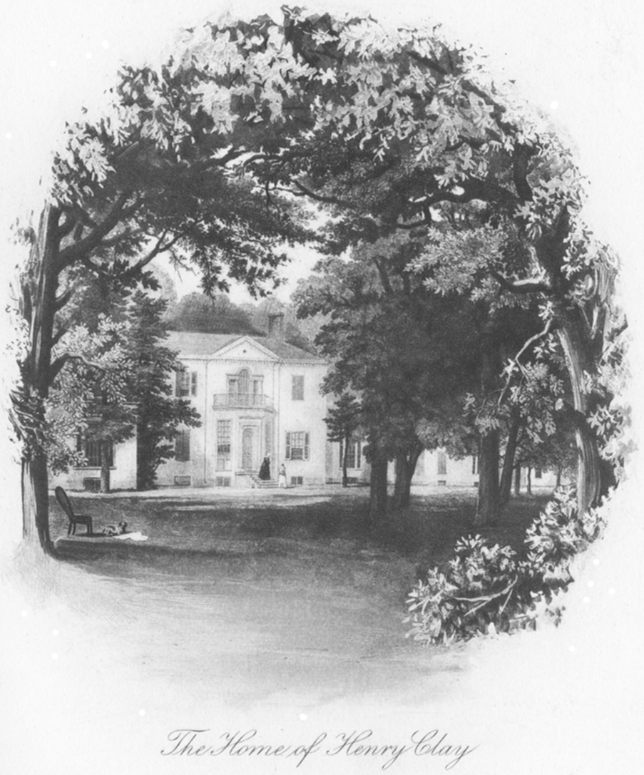 An engraving of "Ashland," Henry Clay's home near Lexington, Kentucky.